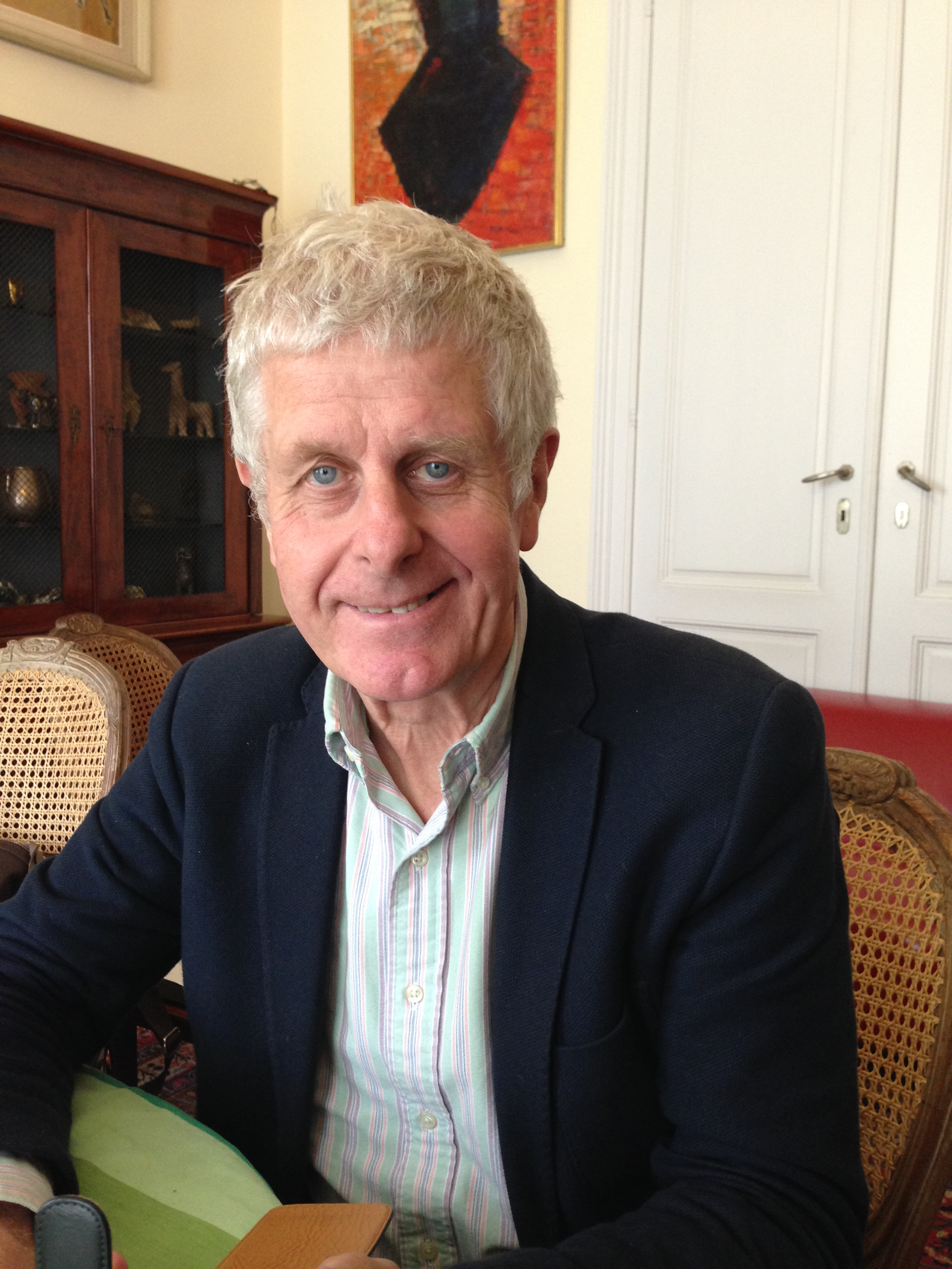 A portrait of Daniel Schell Schellekens at his home in Ixelles-Brussels Belgium